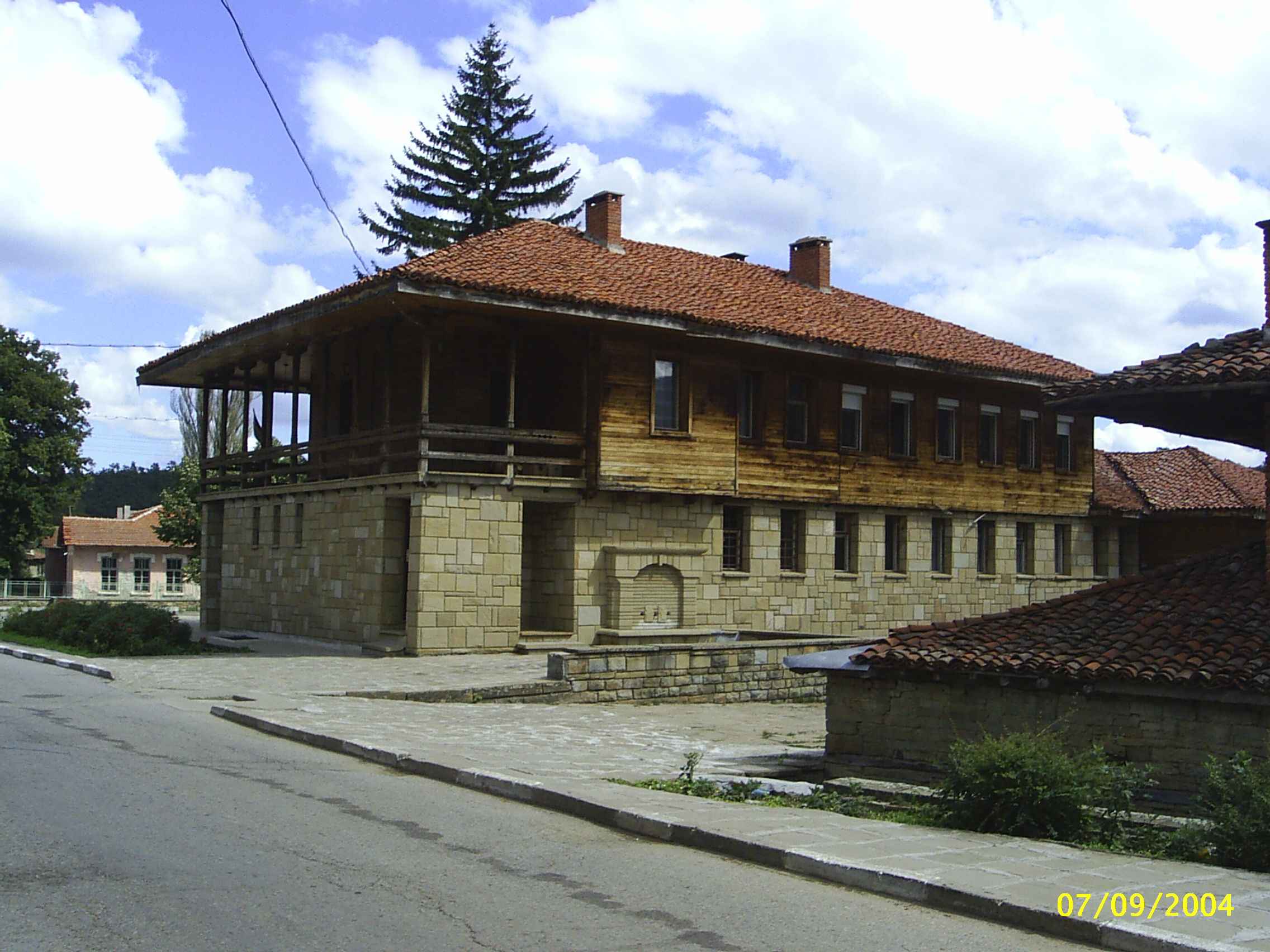 City-hall of Gradets, Bulgaria.